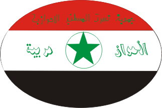 emblem of the AARP